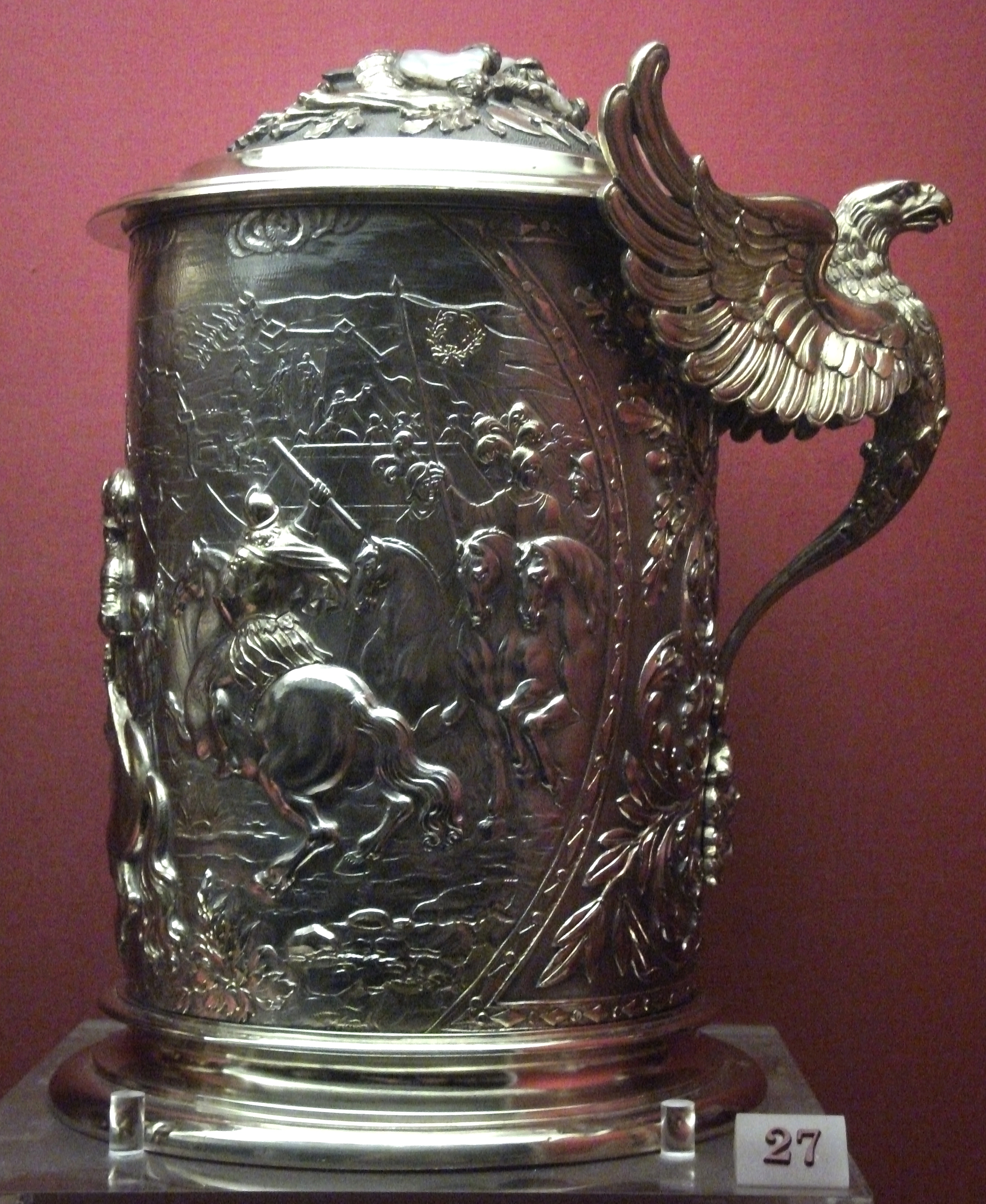 Waddesdon bequest, British Museum,tankard